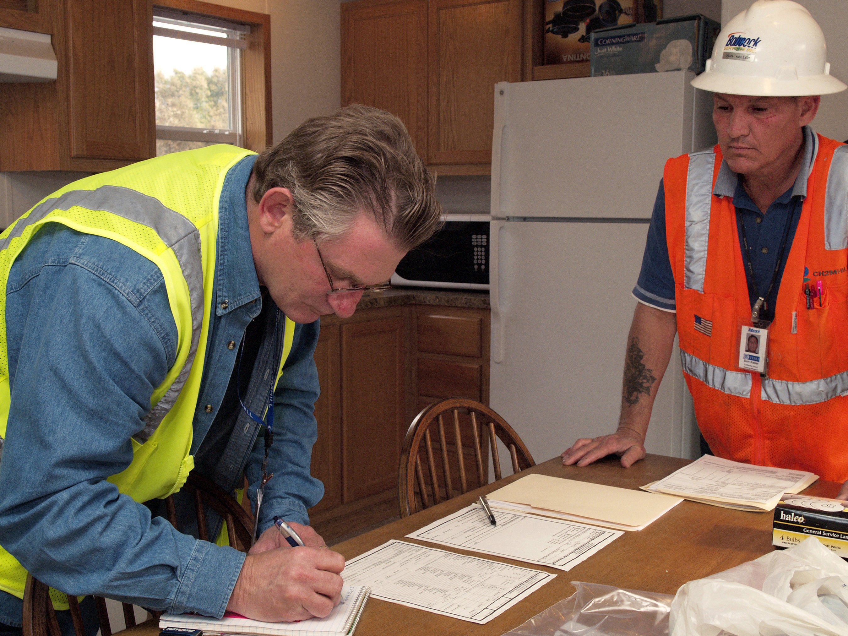 Delzura, CA, December 8, 2007 -- After inspecting the mobile home, Mark Ares, left, of CH2M Hill, Inc., signs paperwork signifying that Don Keller and his team from Babcock Services, Inc., right, have completed the contracting work necessary to prepare it for occupancy. FEMA workers will decide whether the work has been completed to their satisfaction, and once it is a family will be able to sign an occupancy agreement allowing them to use the mobile home as a temporarily residence while they rebuild. The couple lost their home during the wildfires in October. Amanda Bicknell/FEMA